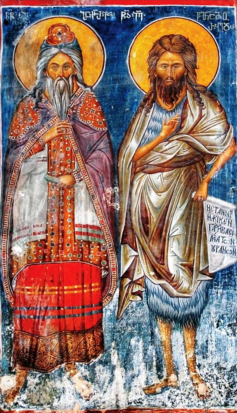 Holy Cross Monastery in Jerusalem. Georgian frescoes and inscriptions